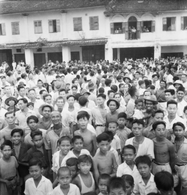 THE NATIVE POPULATION OF KUCHING THRONGS THE STREETS TO WITNESS THE ARRIVAL OF AUSTRALIAN TROOPS.